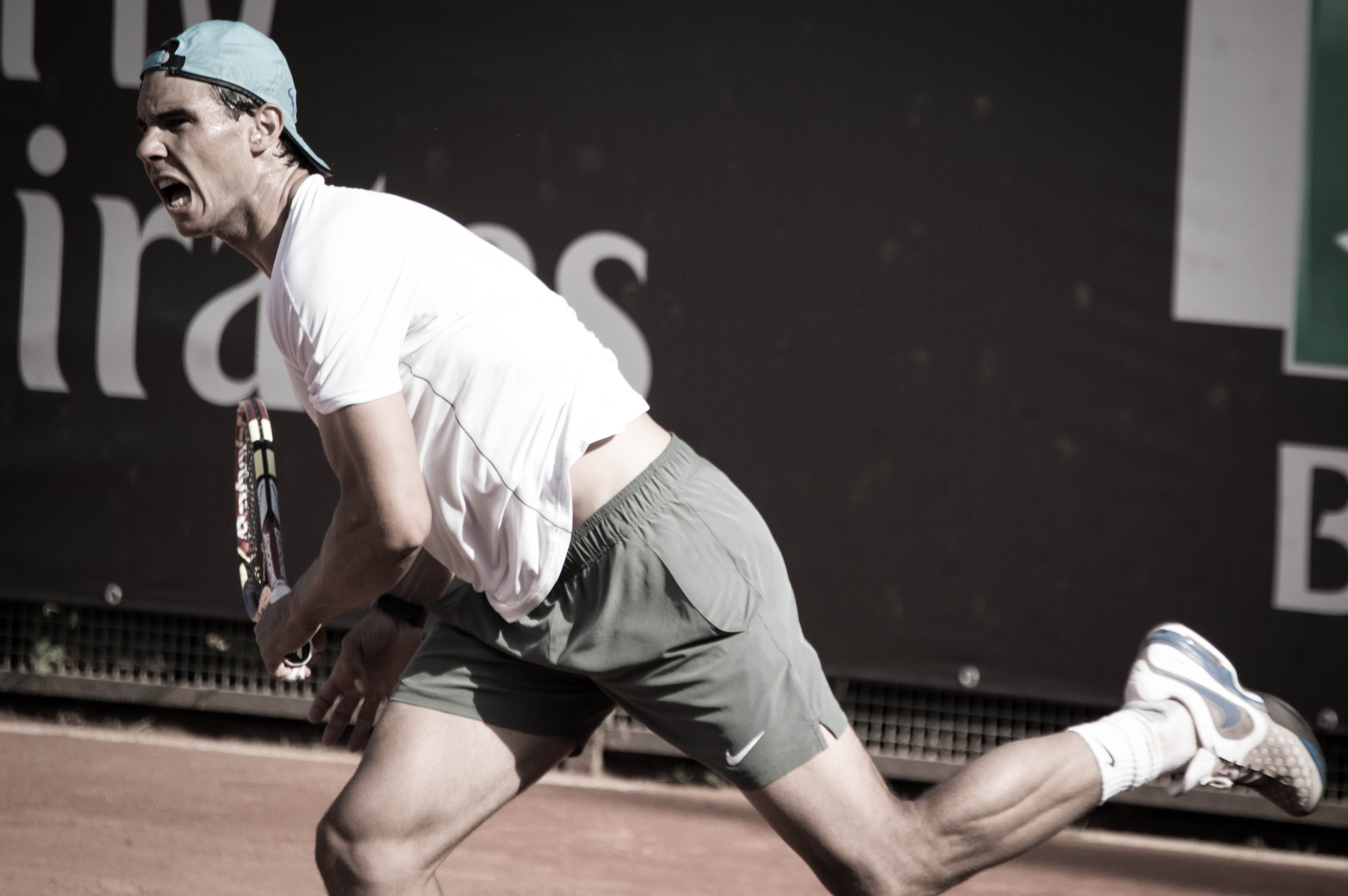 Rafael Nadal in action at the 2014 Italian Open